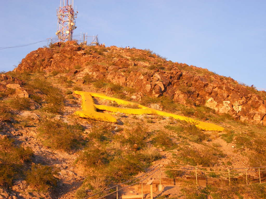 A-Mountain Sunset